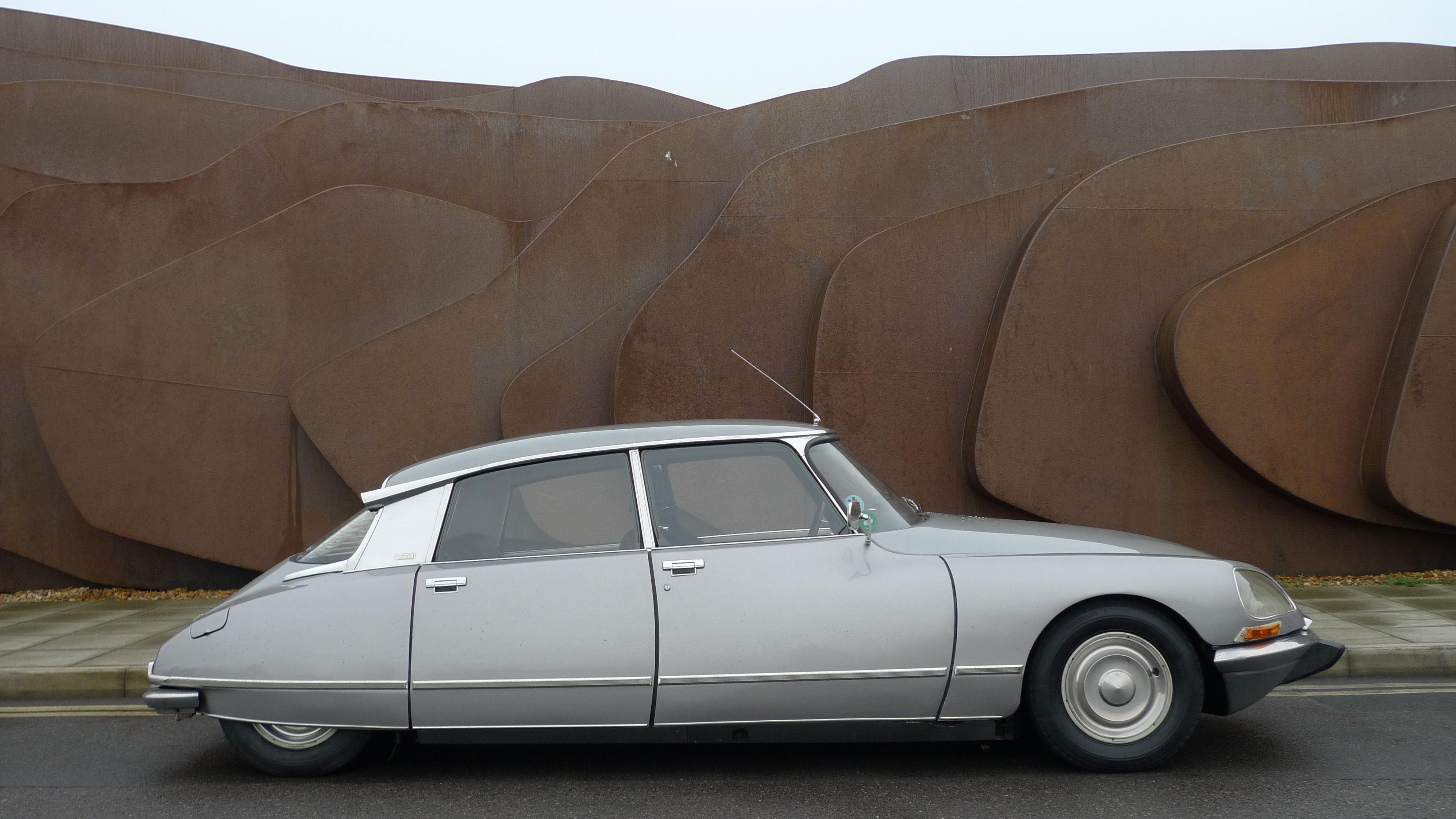 Side view. Low position.